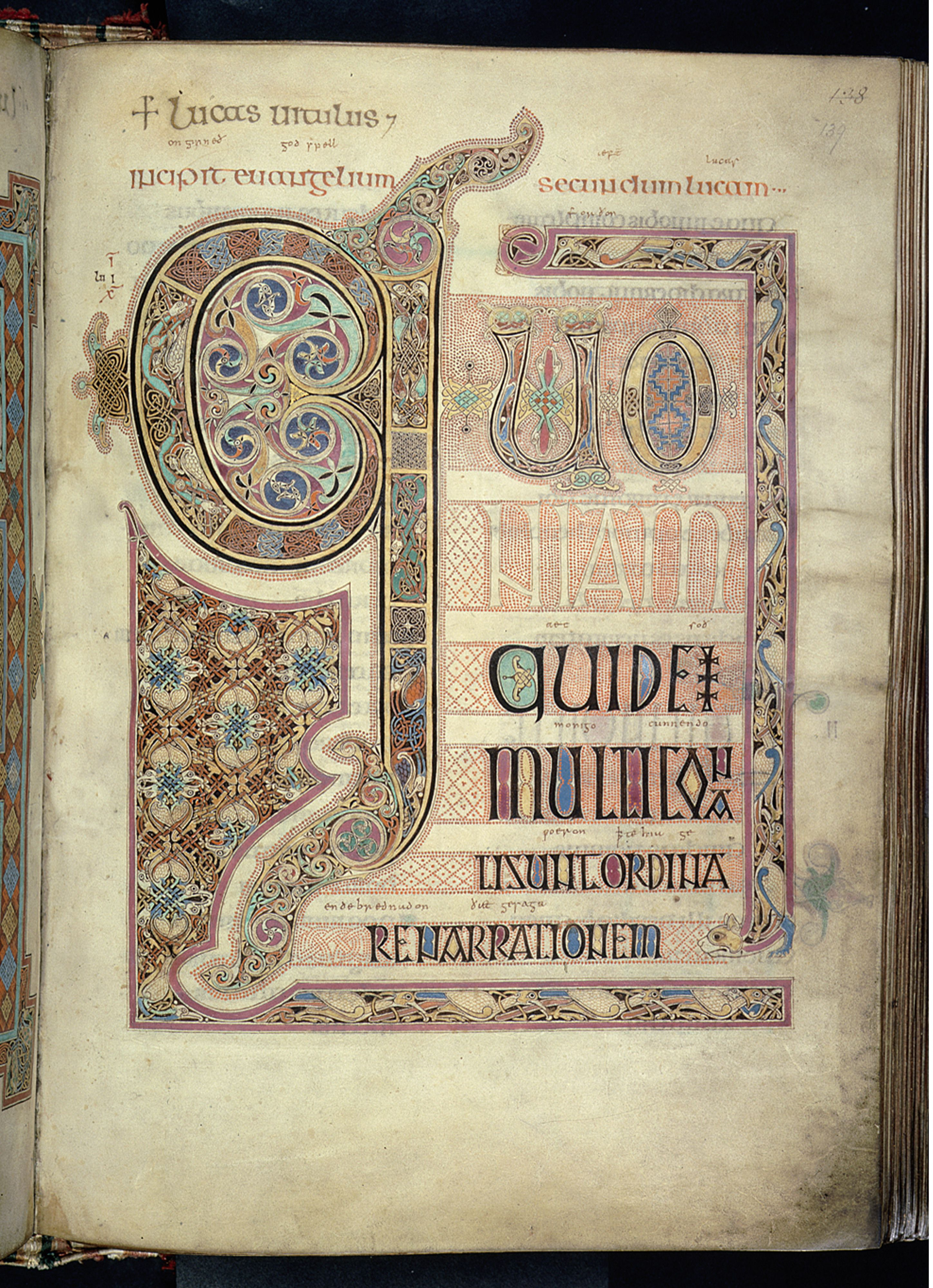 The opening of St Luke's Gospel in the Lindisfarne Gospels. Folio 139 recto. Media: Ink, pigments and gold on vellum Library number: Cotton MS Nero D.iv, f. 139